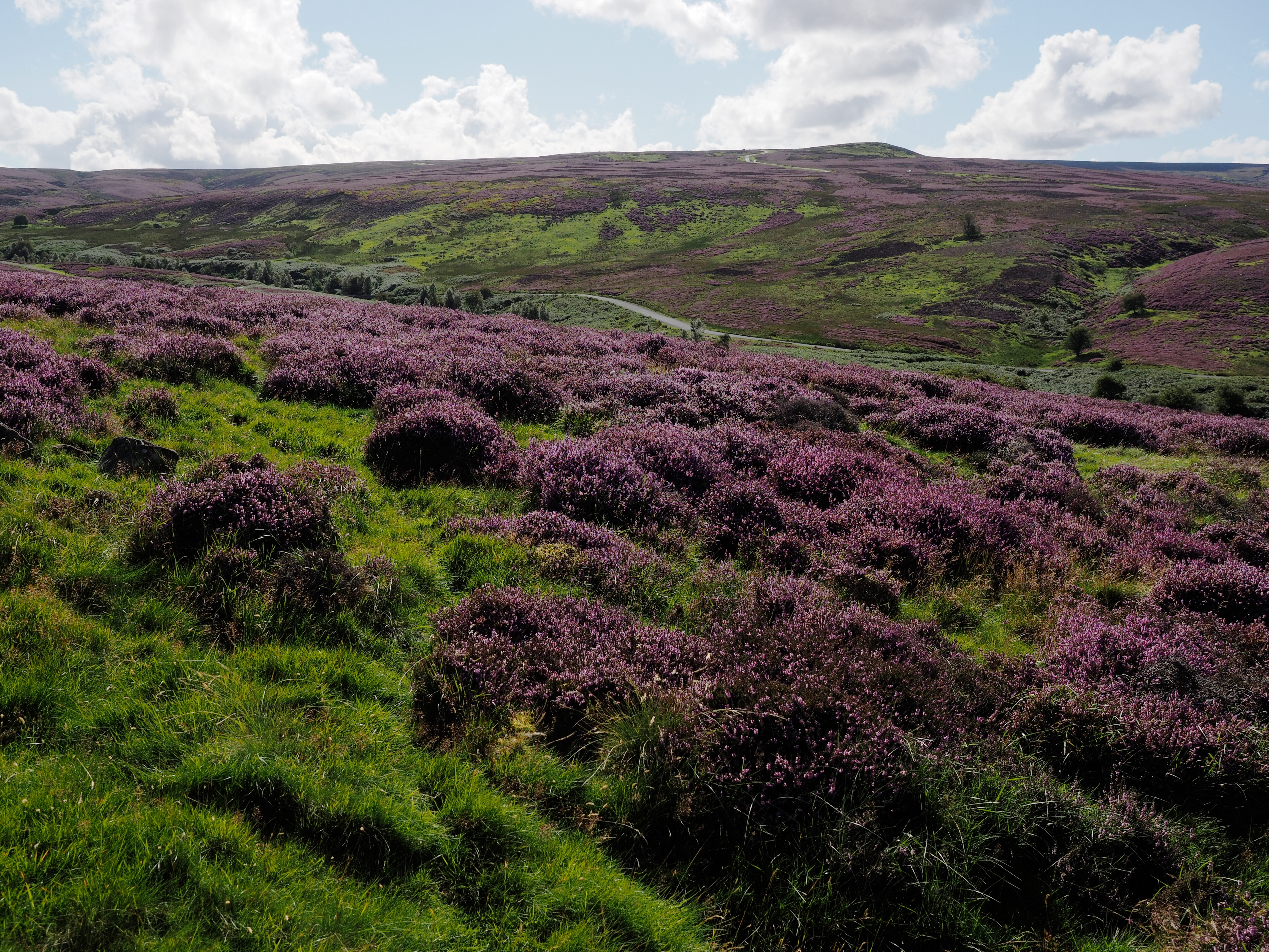 Heather on Cogden moor in bloom